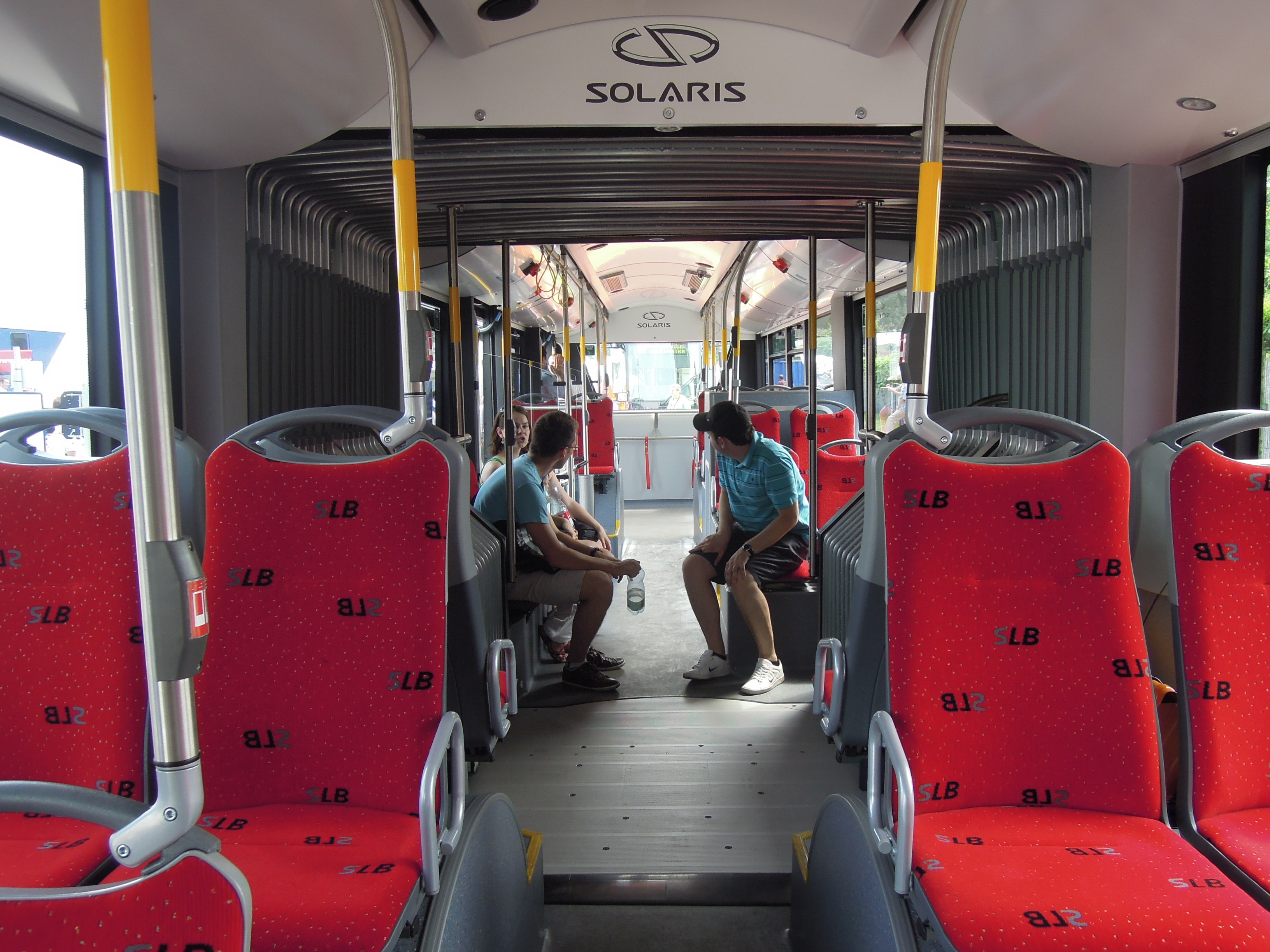 Solaris Trollino 18AC Tram-Look trolleybus at the Czech Raildays 2012 trade fair in Ostrava, Czech Republic. Built 2012, Salzburg AG from Austria operator.